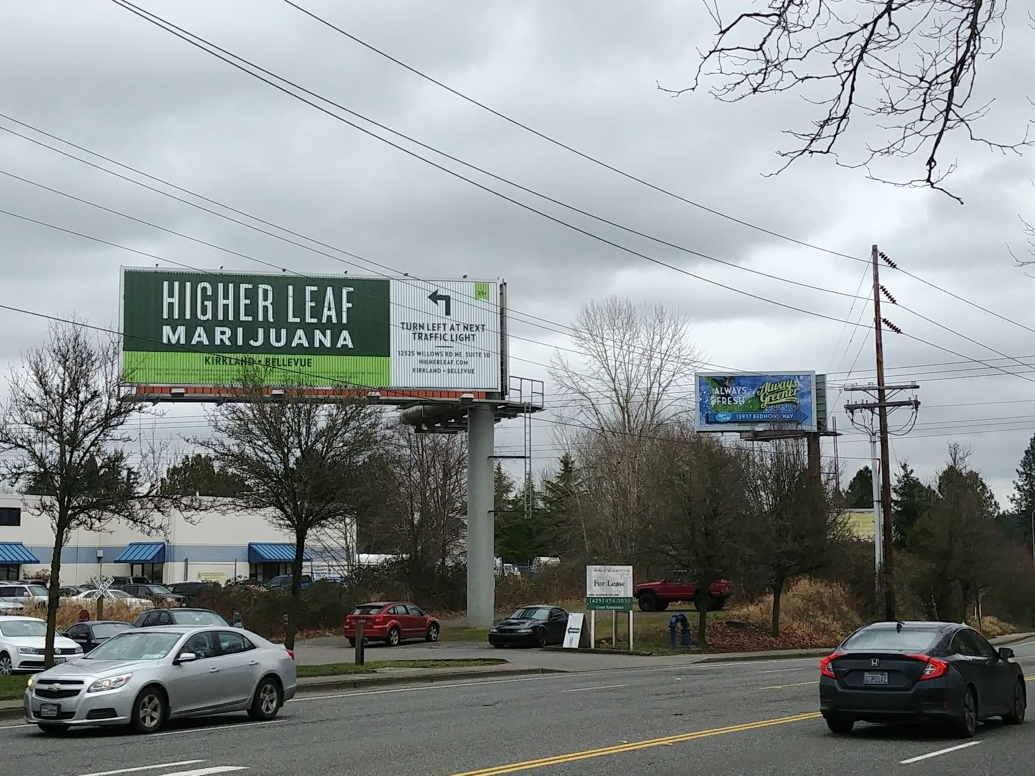 Back-to-back cannabis retail business billboards in Kirkland, Washington's Totem Lake commercial district. The nearer one has the company name "Higher Leaf", driving directions and a business address nearby in Kirkland. The farther one has a company name and address in Redmond.